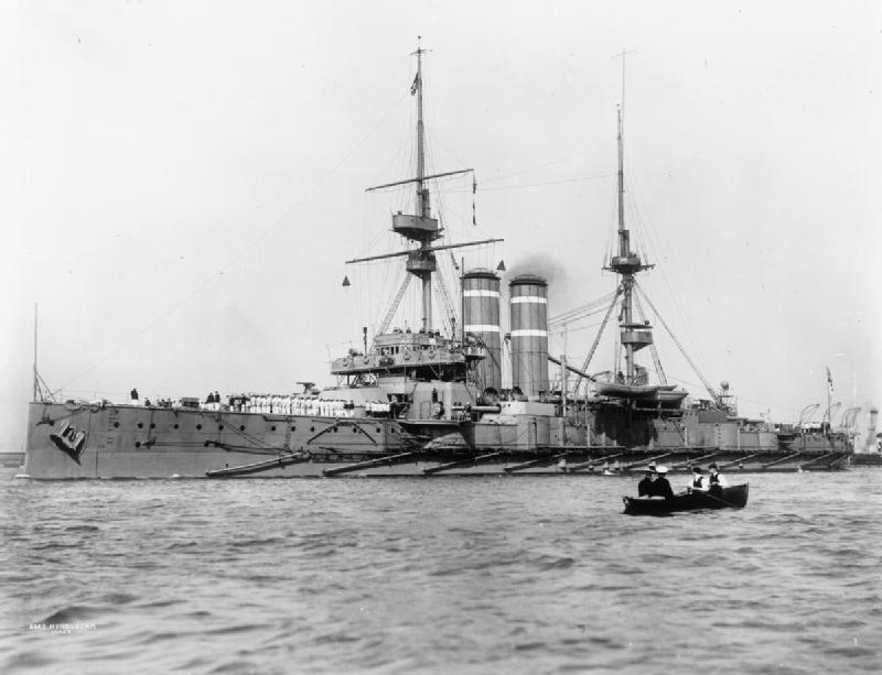 British battleship HMS HINDUSTAN